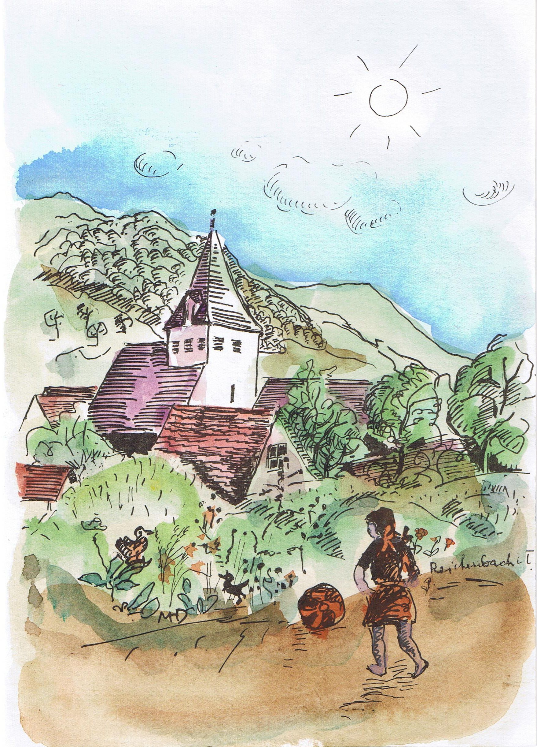 Reichenbach im Täle, quarter of Deggingen, water color, 15 x 20 cm